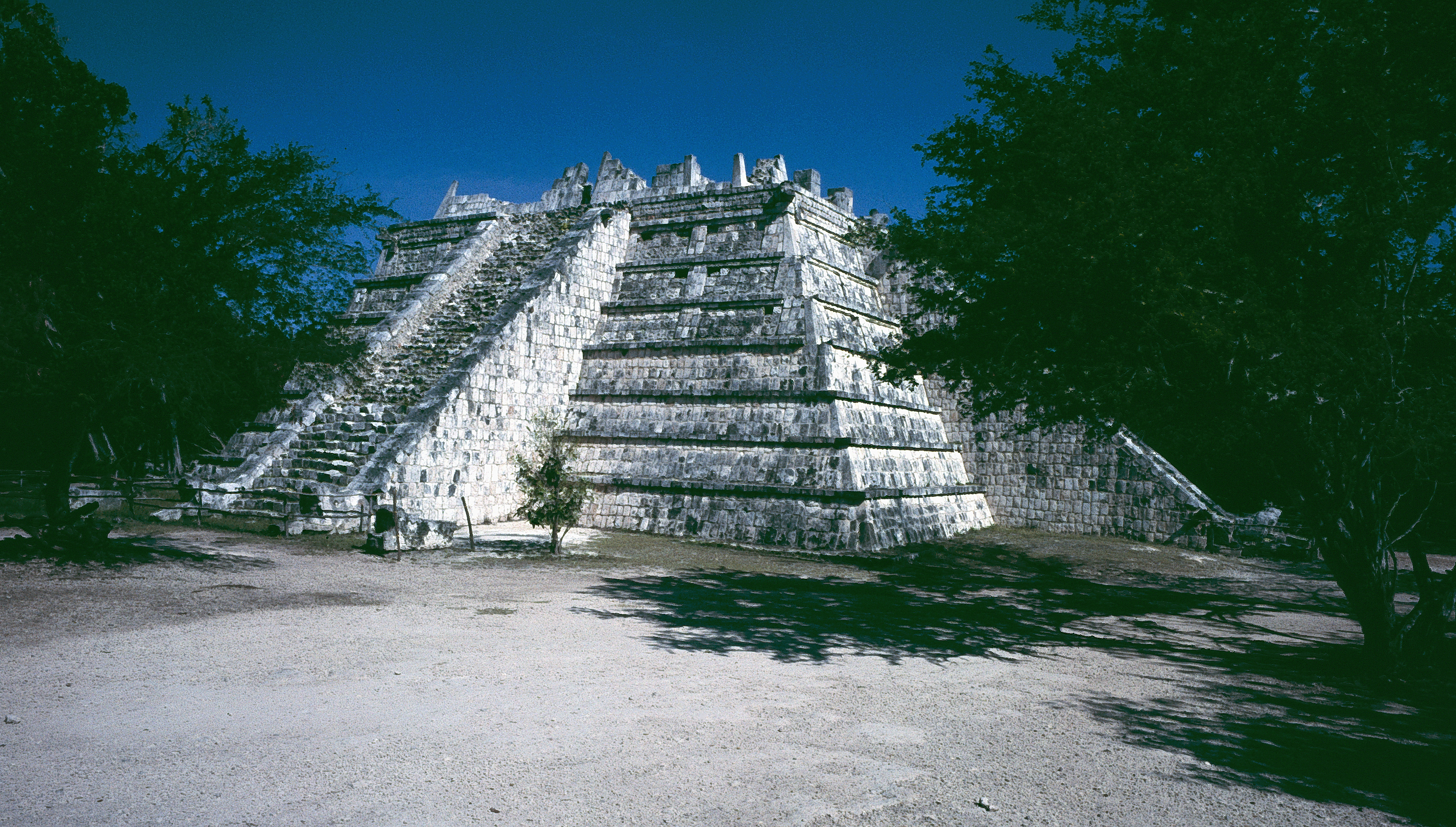 Chichen Itza, Yucatan, Mexico: Osario